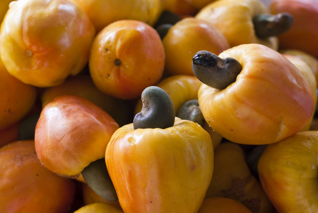 Cashew fruits and nuts.